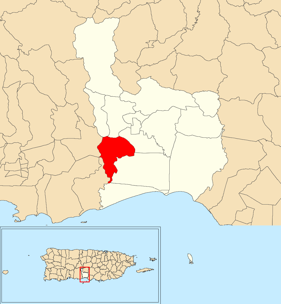 Sabana Llana, Juana Díaz, Puerto Rico locator map